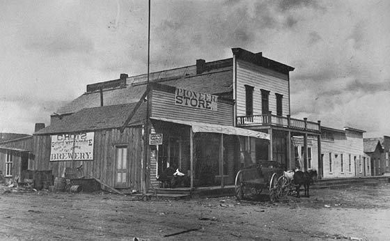 Street scene, Lake Valley, NM, circa 1890